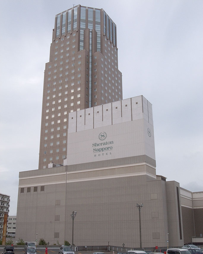 Sheraton Sapporo Hotel, Hokkaido, Japan